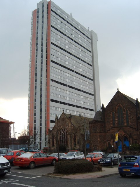 Tower Block at Anniesland Cross as seen from shopping plaza car park